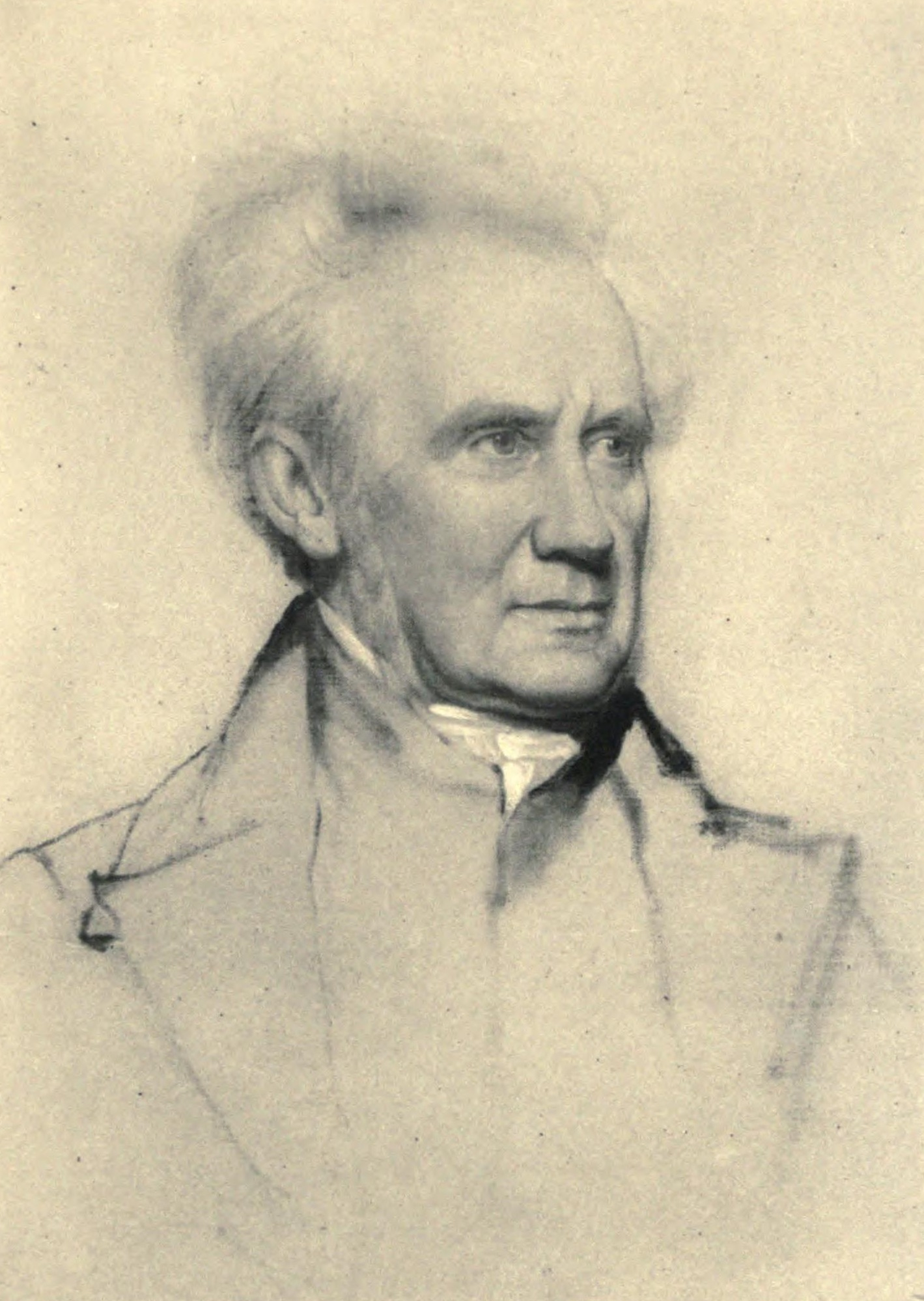 Francis Place